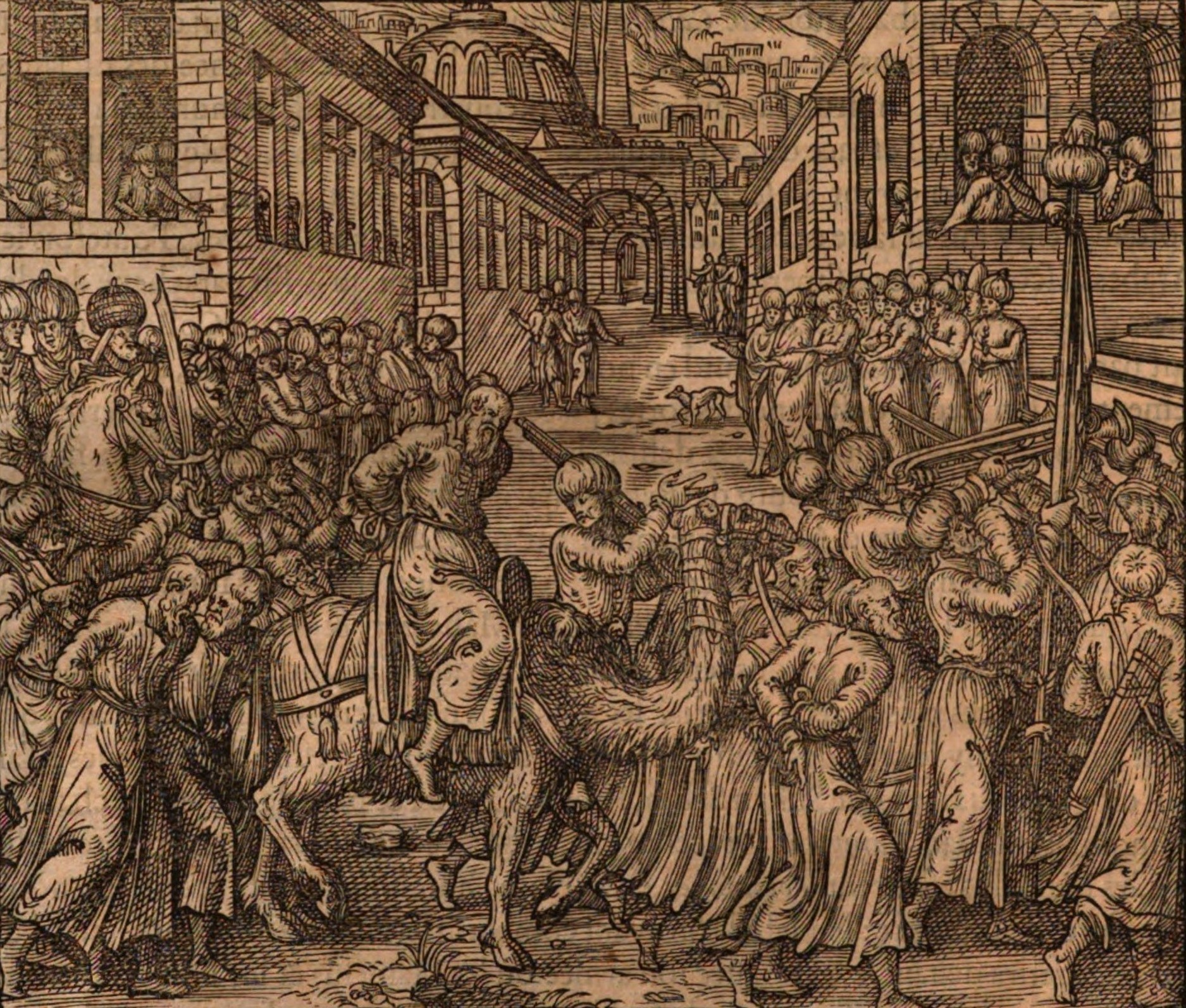 Sultan Tumanbay being led to his execution, in André Thevet, Cosmographie universelle (Paris: Guillaume Chaudière, 1575), I: f. 37 v. Cambridge University Library, Rel.bb.57.1.